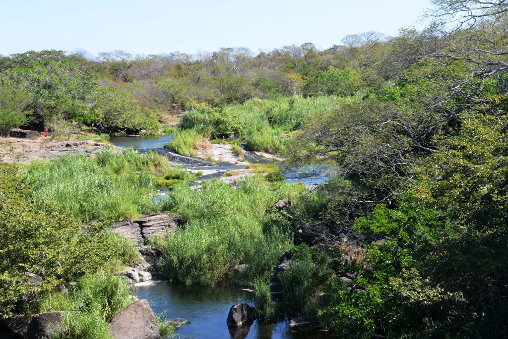 El Río Tamarindo desde la Carretera Vieja a León. El río es la frontera entre los municipos Nagarote, al la derecha, y La Paz Centro, an la isquierda.